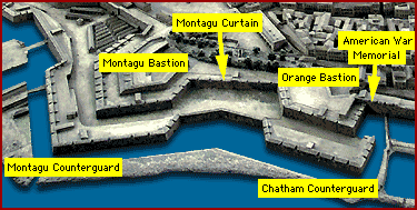 Orange and Montagu Bastion shown on the 1860 model now in Gibraltar Museum